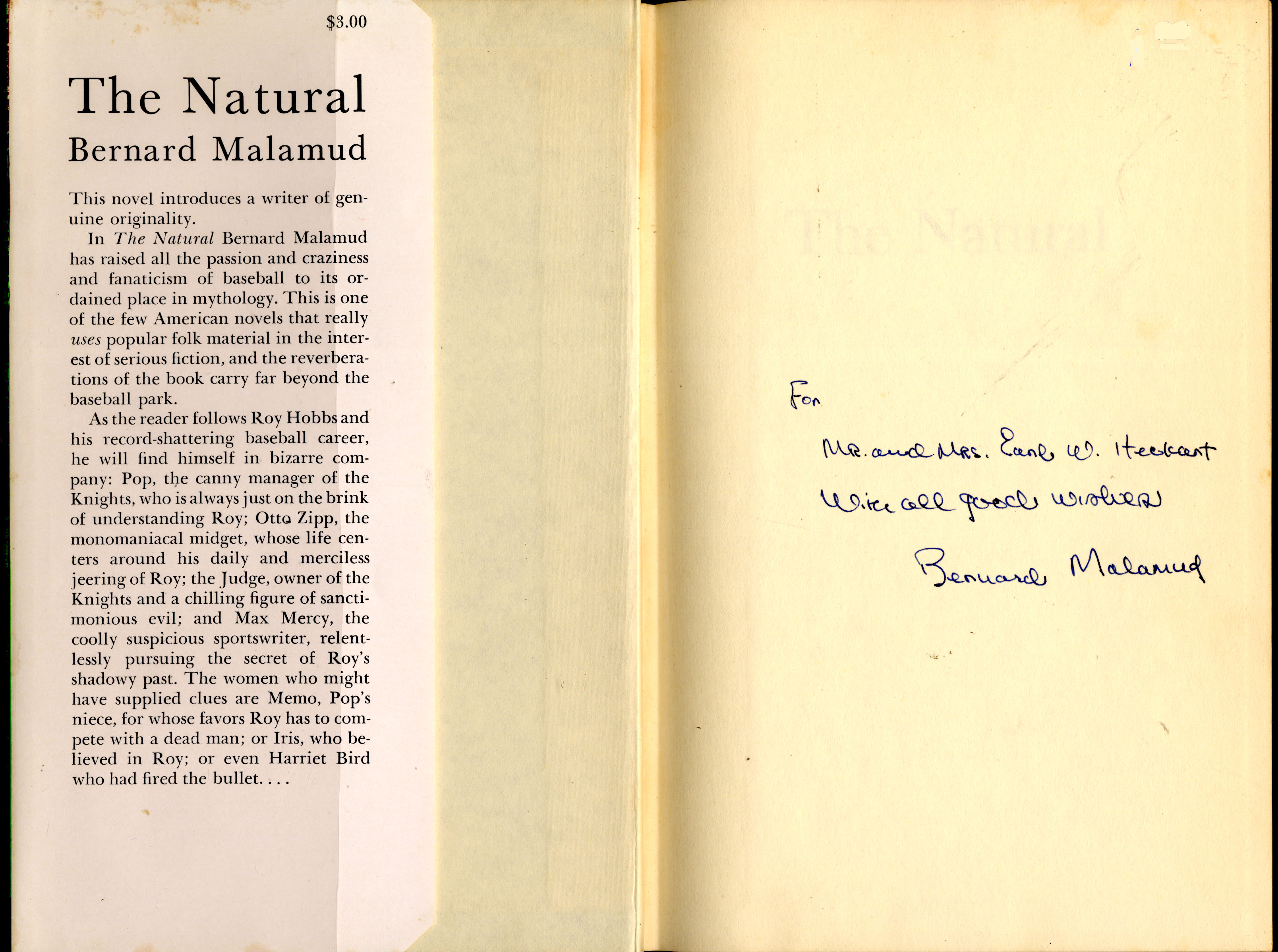 Uploader's description: "The inscription in Bernard Malamud's book "The Natural," which was recently donated to OSU Libraries' Special Collections. The book is an inscribed, first edition. Date: Sept. 2009." Article: [ Inscribed, first-edition copy of acclaimed novel, “The Natural,” donated to OSU"